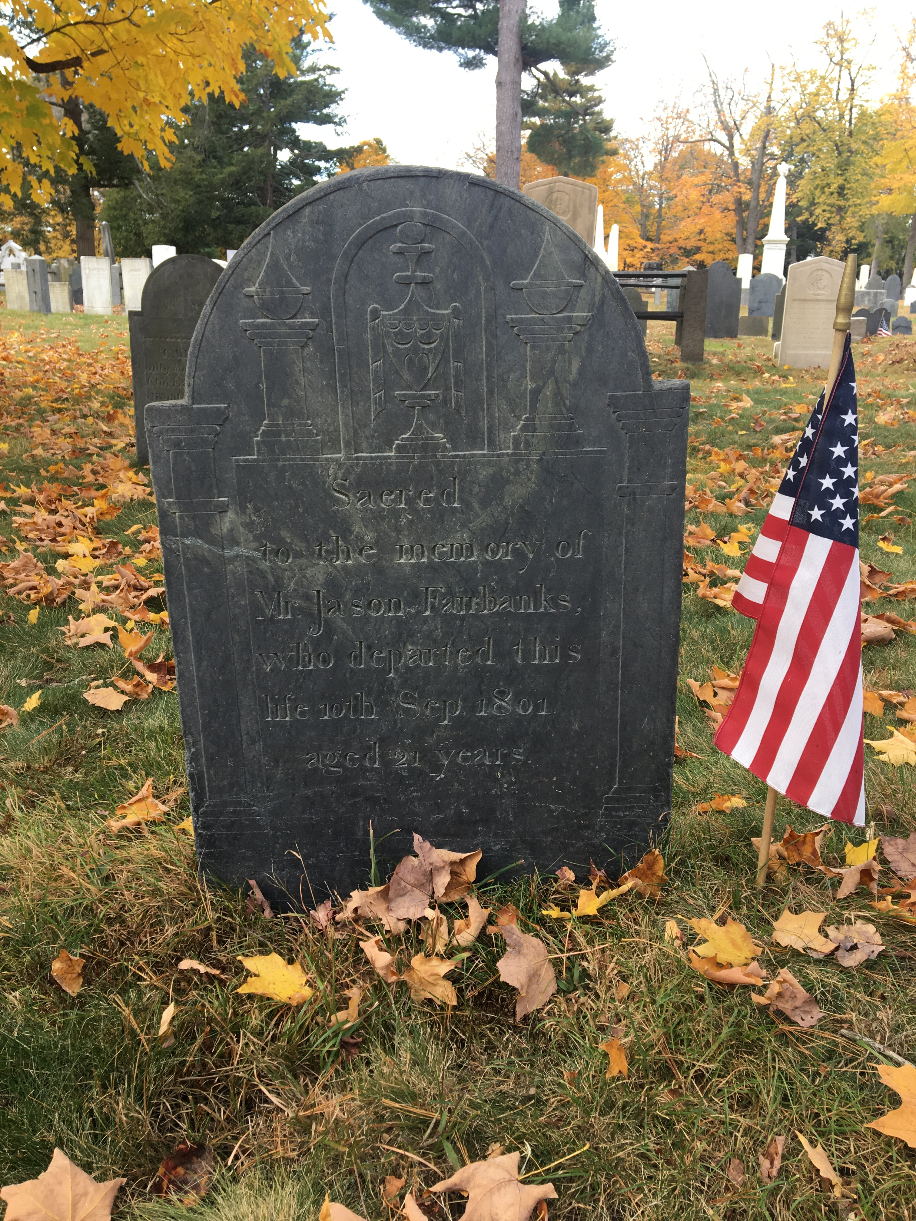 The tombstone of Jason Fairbanks at Old Village Cemetery in Dedham, Massachusetts